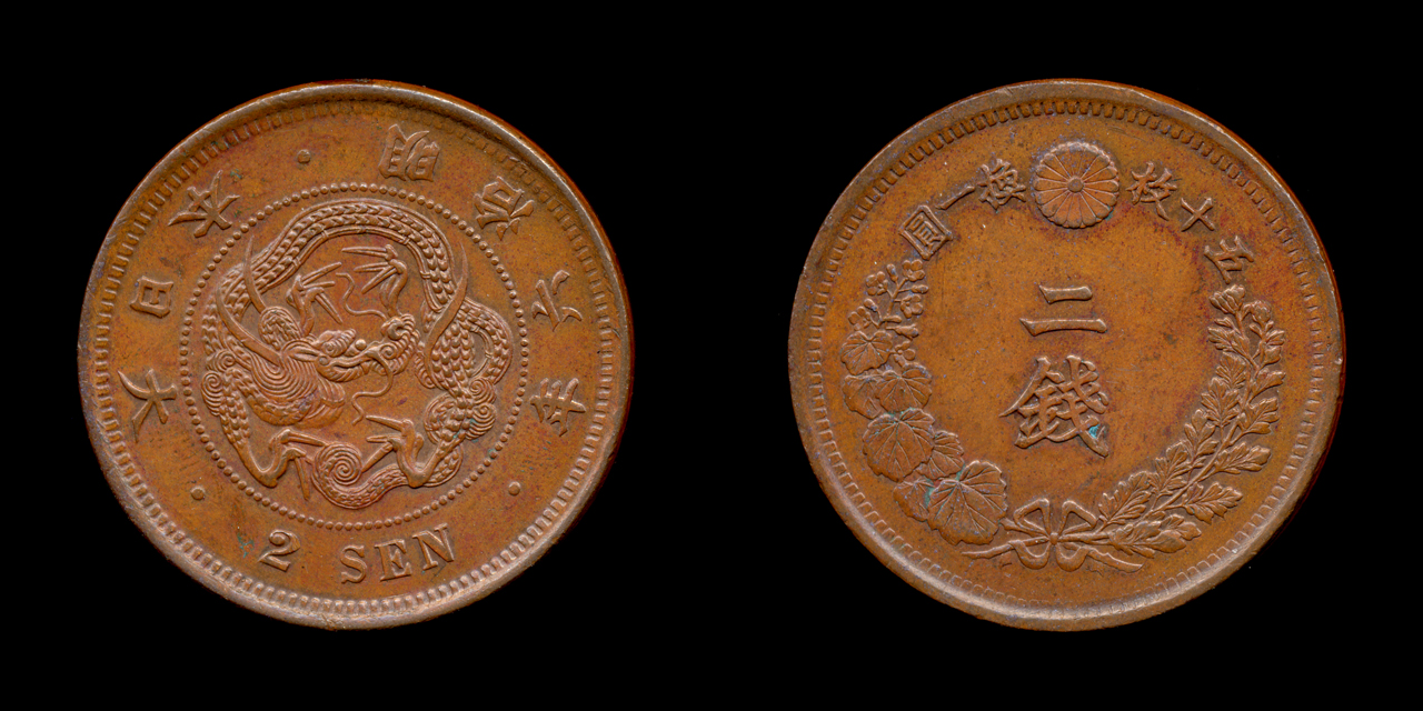 2sen-M6